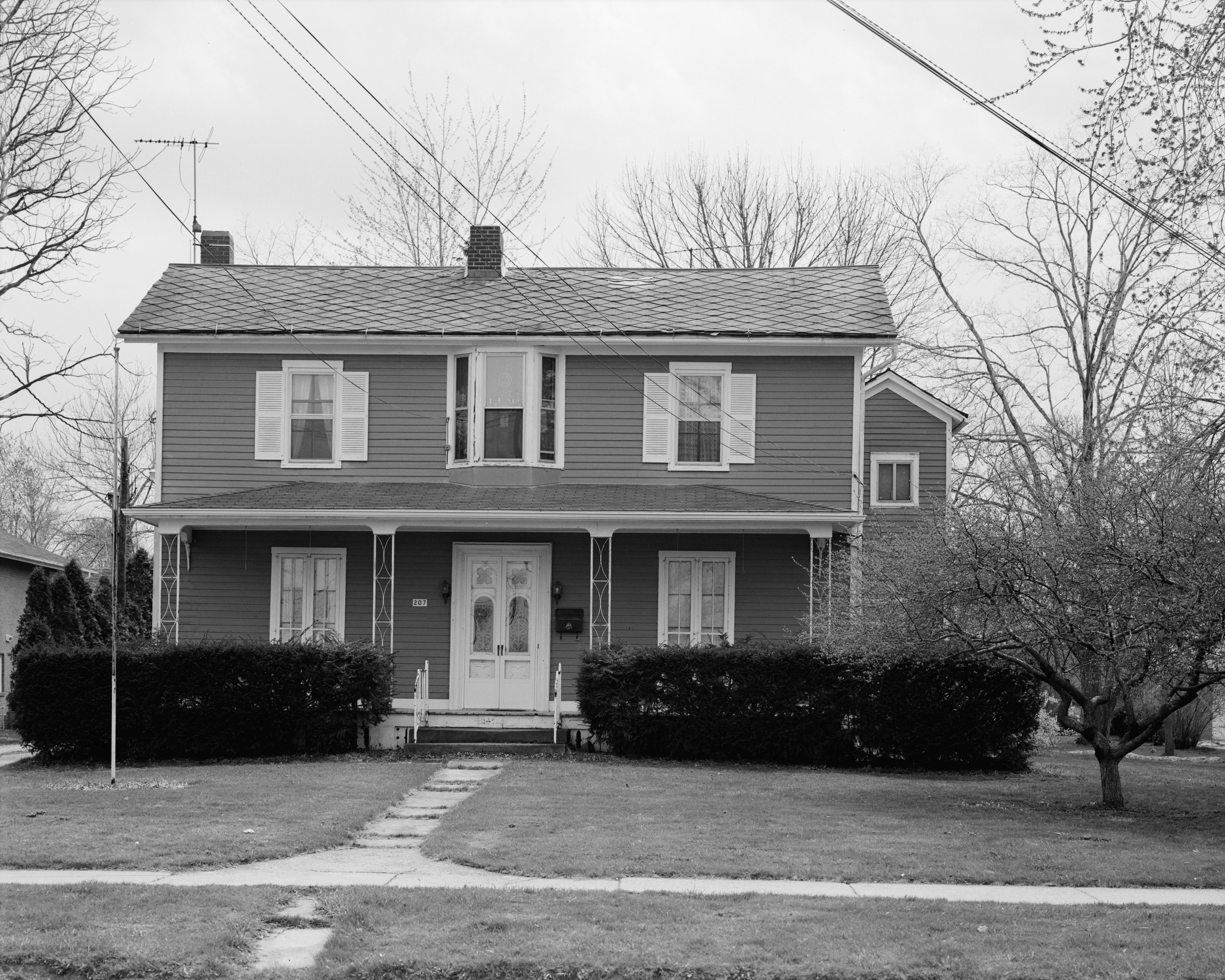 Front of the John Mercer Langston House, located at 207 E. College Street in Oberlin, Ohio, United States. Built in 1855, it has been designated a National Historic Landmark because of its status as the former home of John Mercer Langston.